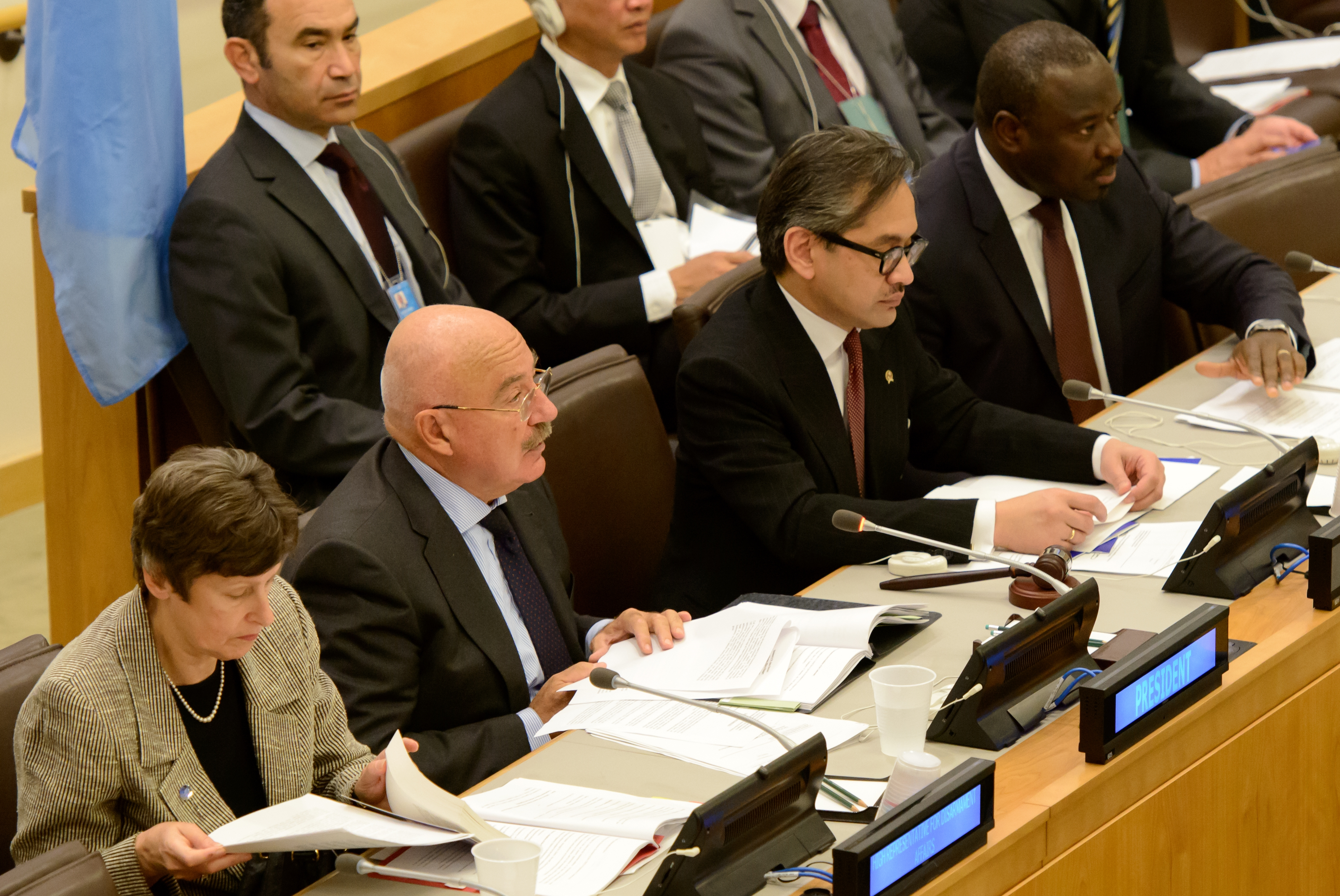 Angela Kane, UN High Representative for Disarmament Affairs, János Martonyi, Foreign Minister of Hungary, Marty M. Natalegawa, Foreign Minister of Indonesia, and Lassina Zerbo, CTBTO Executive Secretary